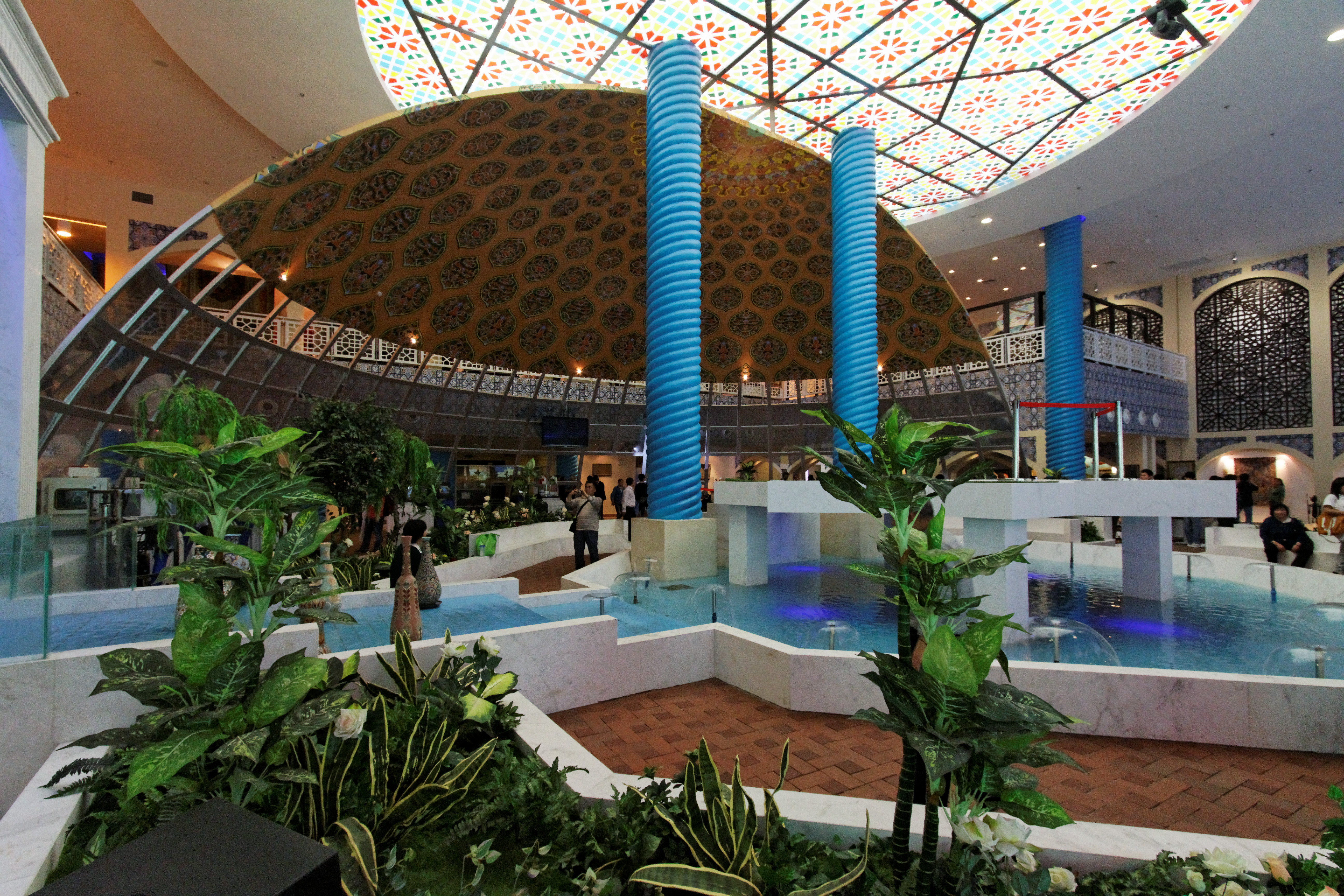 Iran Pavilion of Expo 2010, inside view